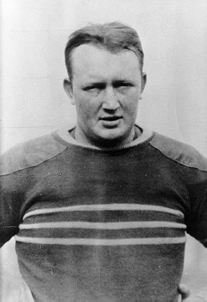 Photo of "Red" Roberts, Centre College Fullback